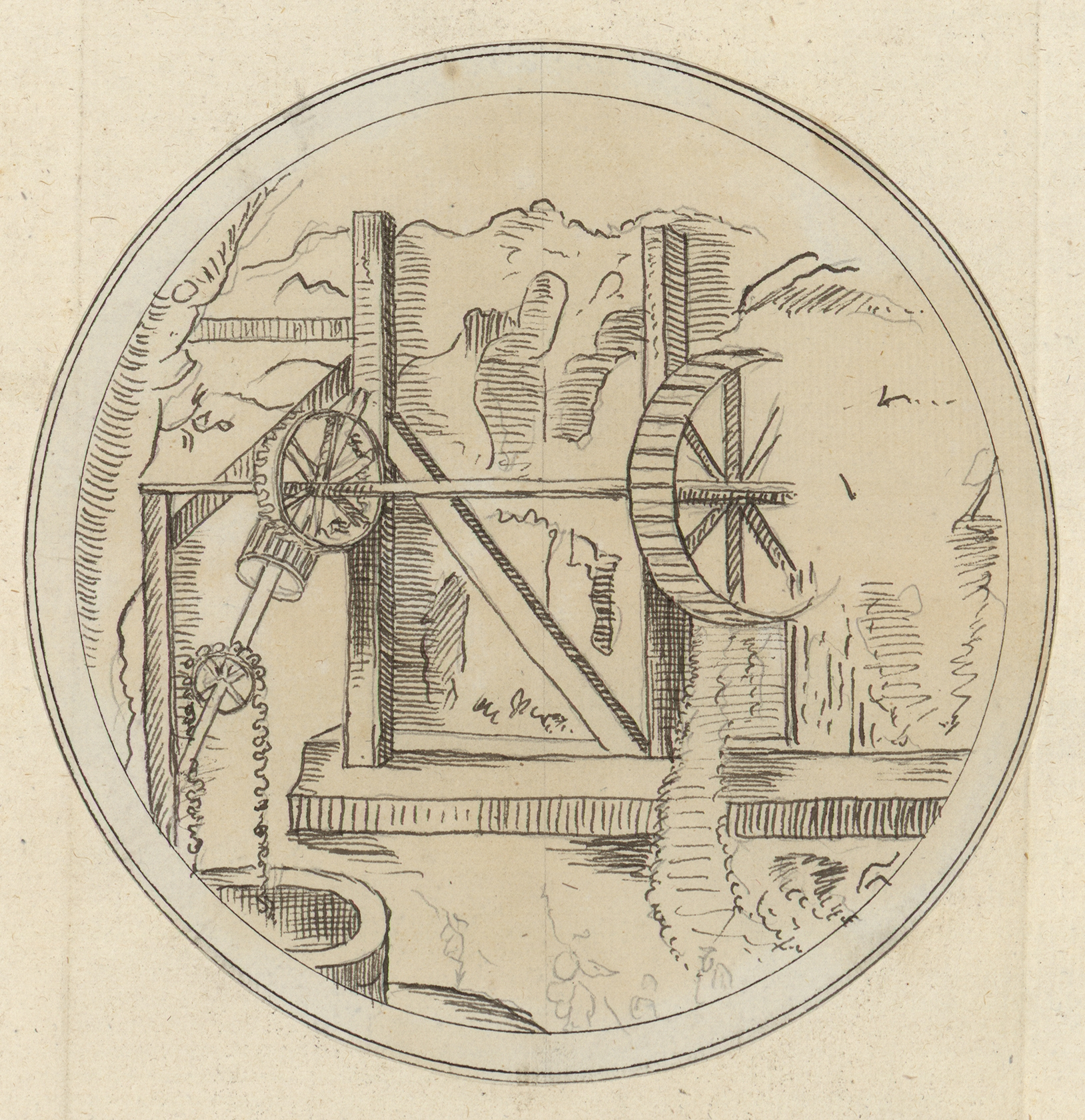 An image from a set of 8 extra-illustrated volumes of A tour in Wales by Thomas Pennant (1726-1798) that chronicle the three journeys he made through Wales between 1773 and 1776. These volumes are unique because they were compiled for Pennant's own library at Downing. This edition was produced in 1781. The volumes include a number of original drawings by Moses Griffiths, Ingleby and other well known artists of the period. Thomas Pennant (1726-1798)